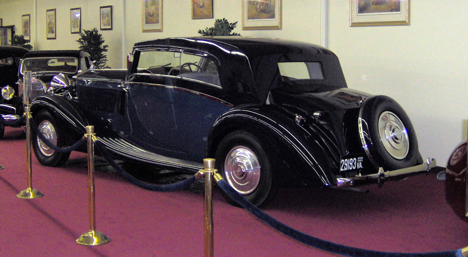 1937 Rolls-Royce Phantom III Vesters & Neirinck Coupe